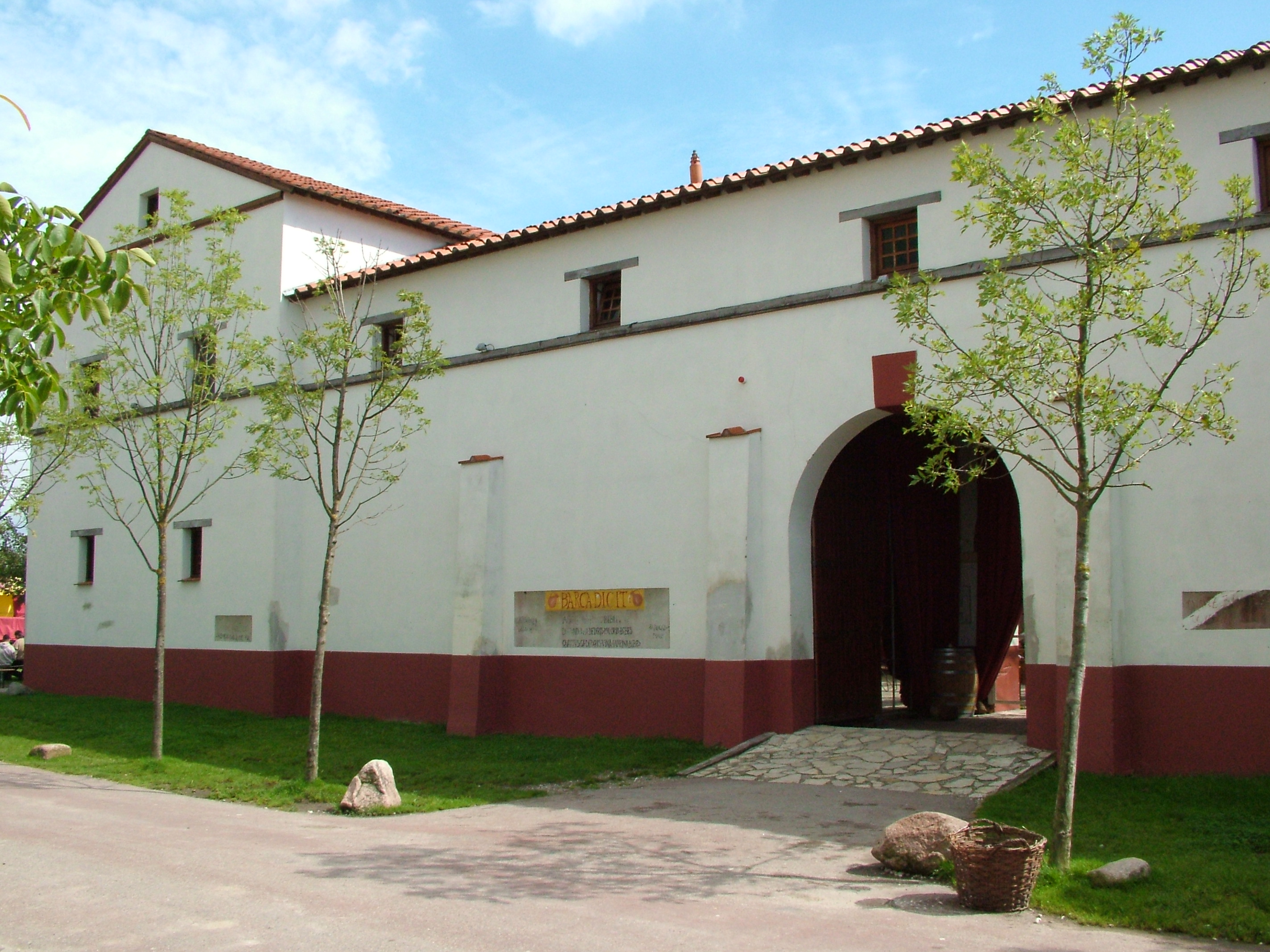 Archeon, Romeins gasthuis